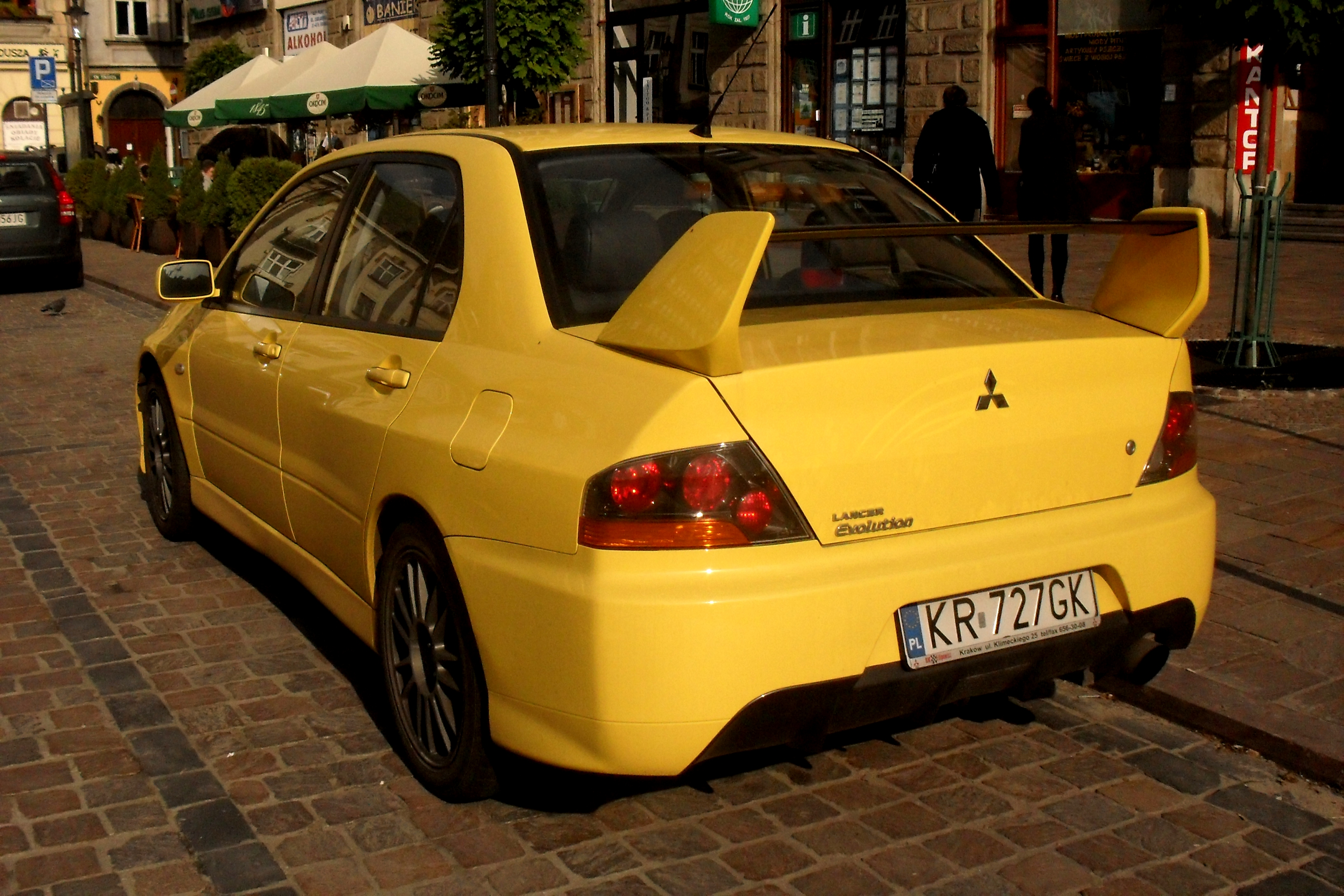 Mitsubishi Lancer Evolution IX car seen in Kraków, Poland.